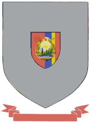 Template for communist coats of arms of counties in Socialist Republic of Romania.